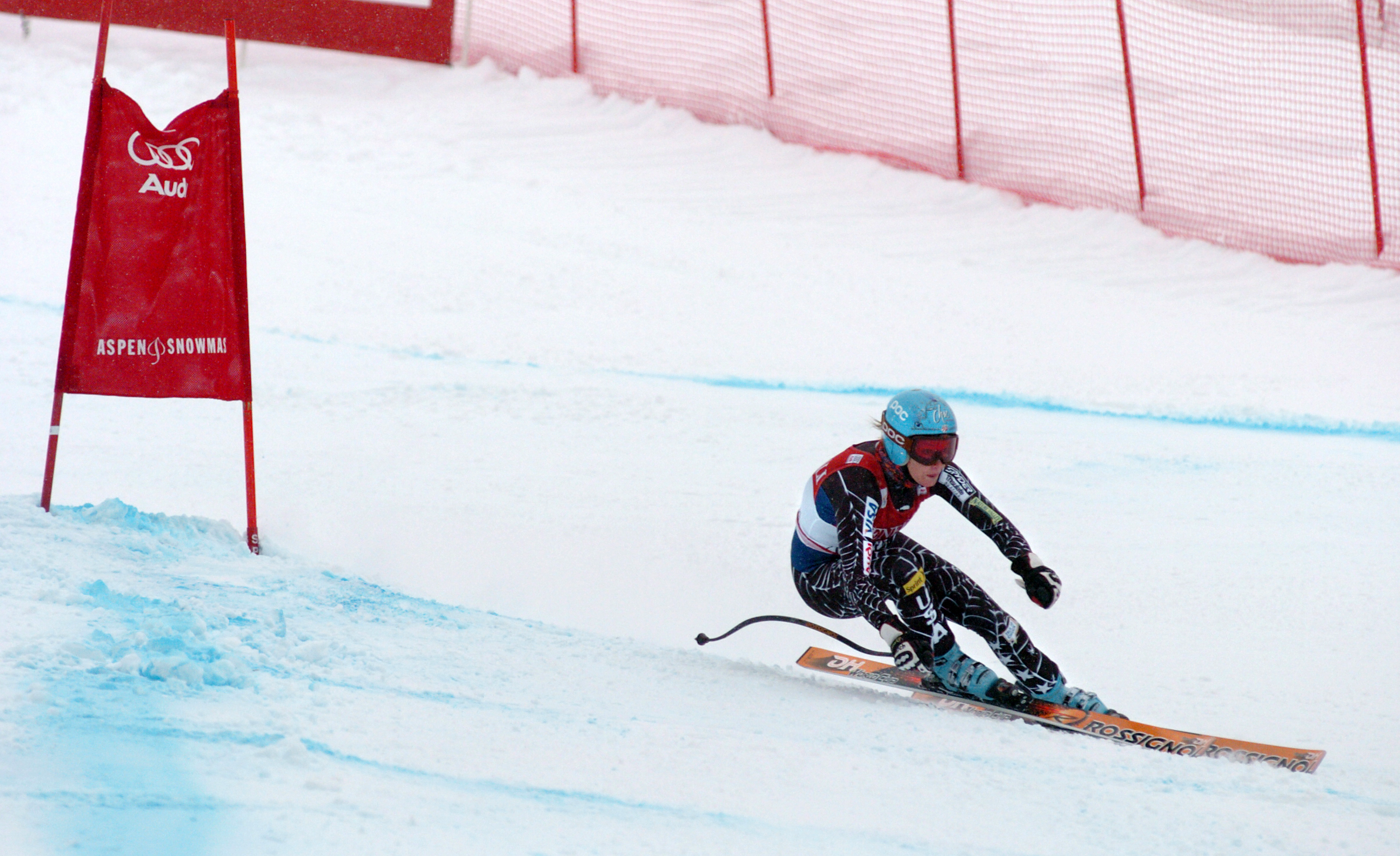 US skier Julia Mancuso travels the World Cup downhill course on Saturday, December 8th, 2007 in Aspen, Colorado. After having been rescheduled, the women's downhill race was halted due to poor visibility on Ruthie's Run. Mancuso placed sixteenth with a time of 1:15.63. [Arthur Mouratidis]